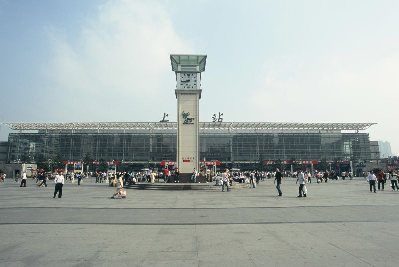 Shanghai Rail Station 上海火車站